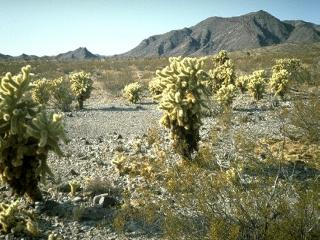 Transwiki approved by: User:Dmcdevit This image was copied from en. The original description was: Bigelow Cholla Garden Wilderness.